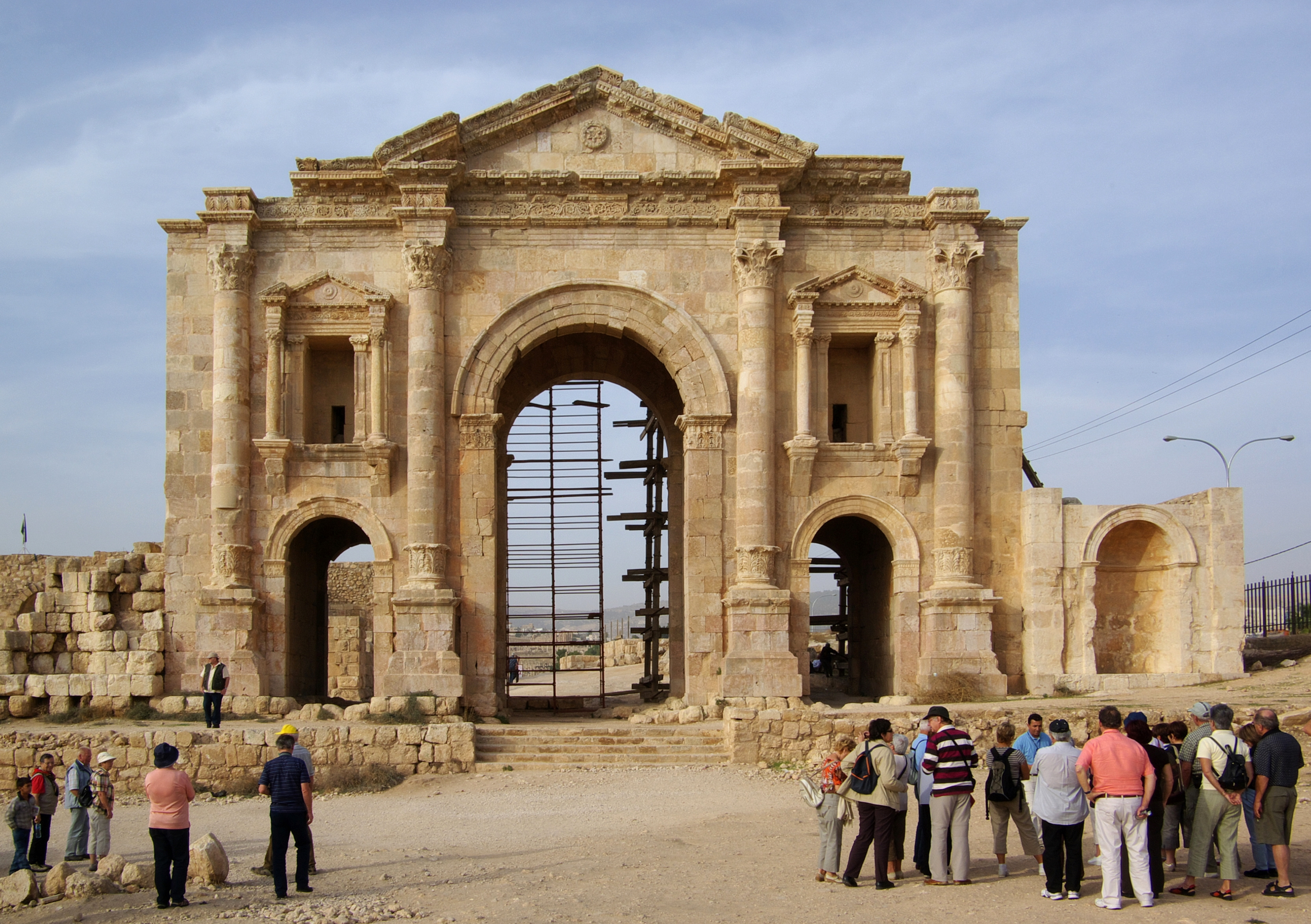 Jerash, Arch of Hadrian